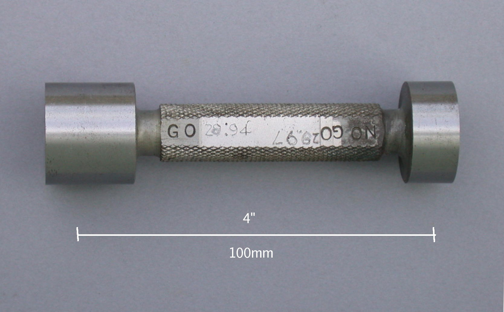 Go No/Go plug gauge. 'Go' end measures 29.94mm, 'NoGo' end measures 29.97mm